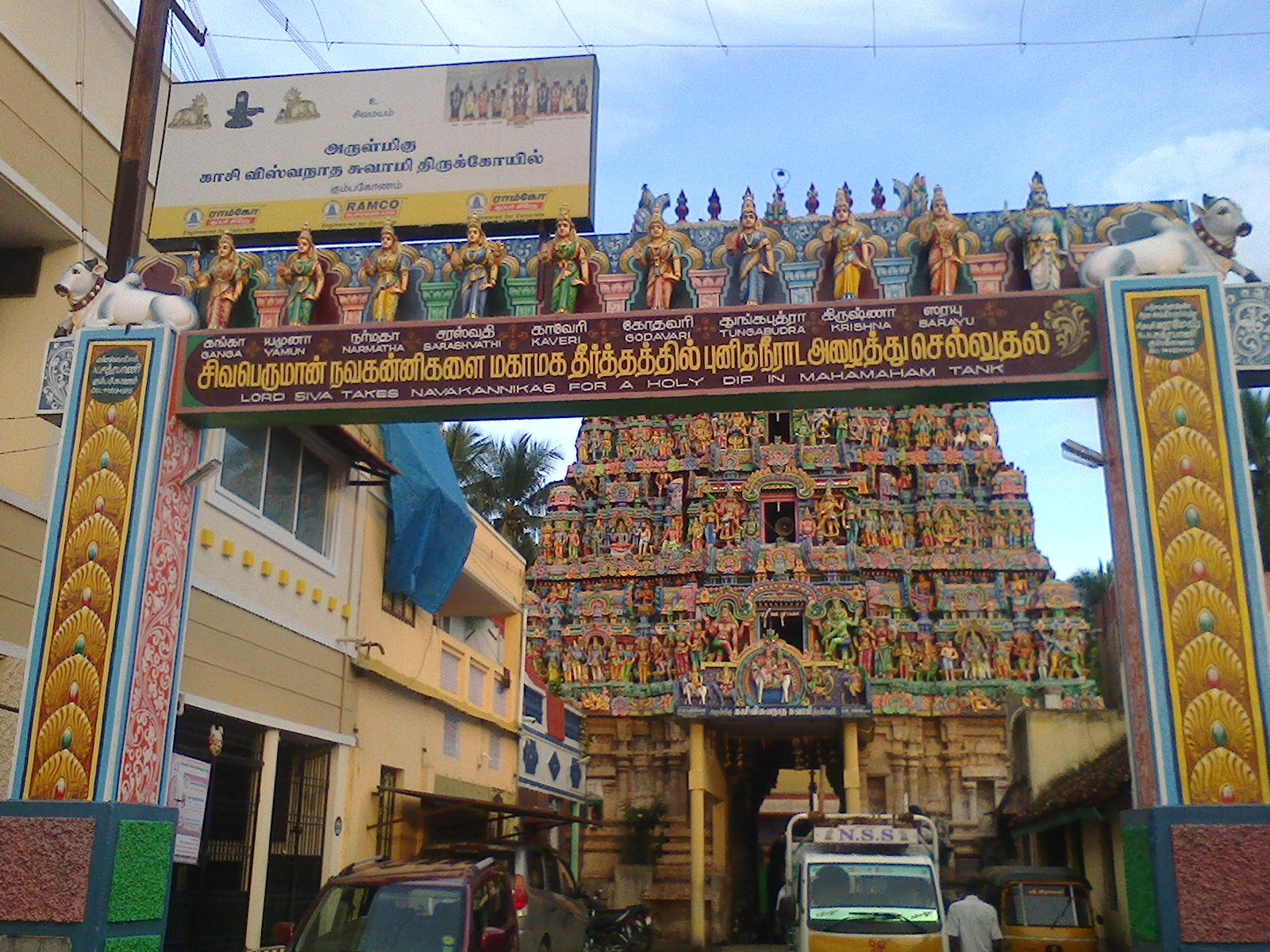 கும்பகோணம் காசிவிசுவநாதர் கோயில் நுழைவாயில்